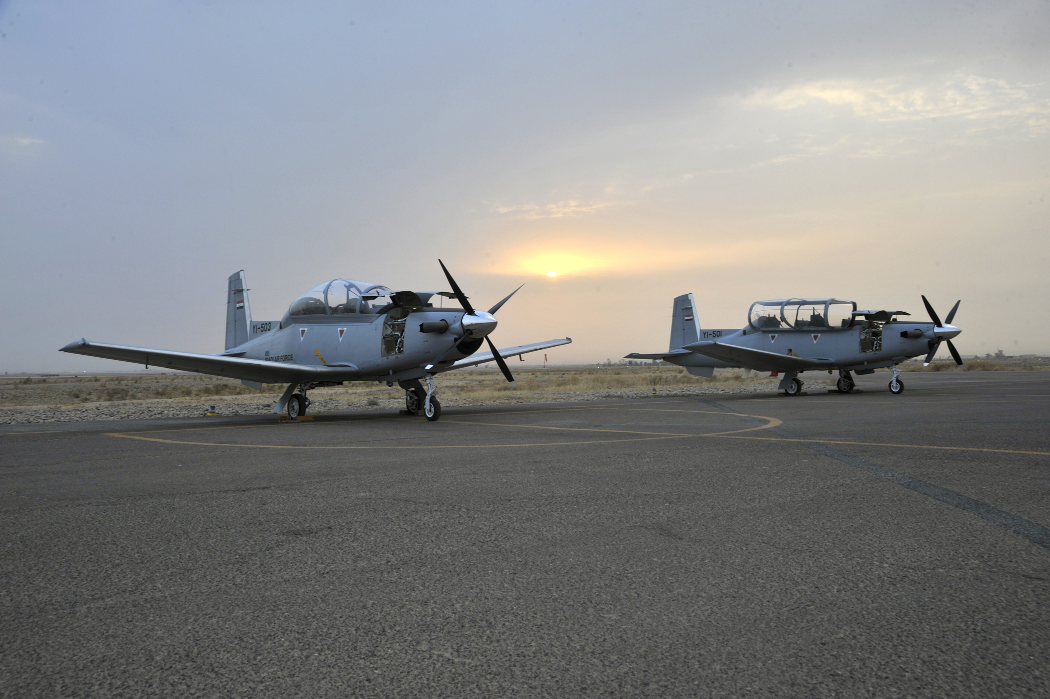 2 T-6A Texan II, Iraqi air force, Tikrit Air Base. Sept. 26, 2010.